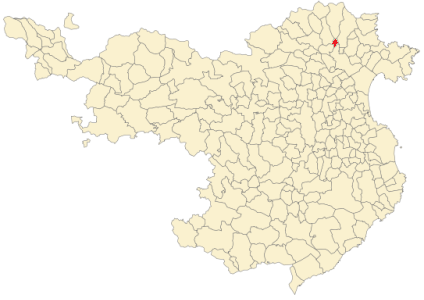 Mollet de Peralada